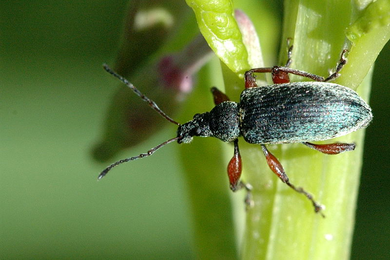 Picture taken in Commanster, Belgian High Ardennes . Species: Phyllobius glaucus